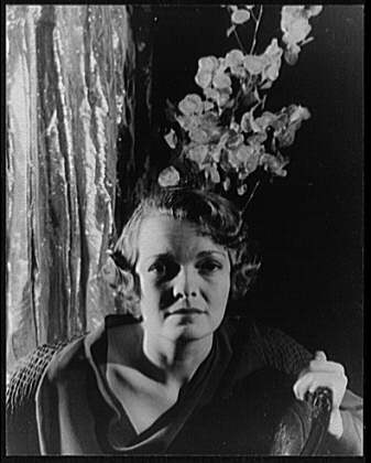 Actress Margalo Gillmore taken by Carl Van Vechten.